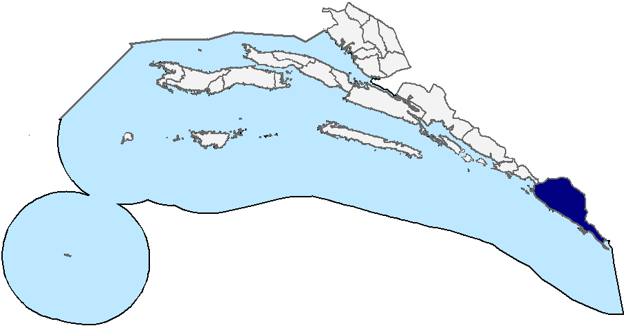 Self-made map of Konavle municipality within Dubrovnik-Neretva County.